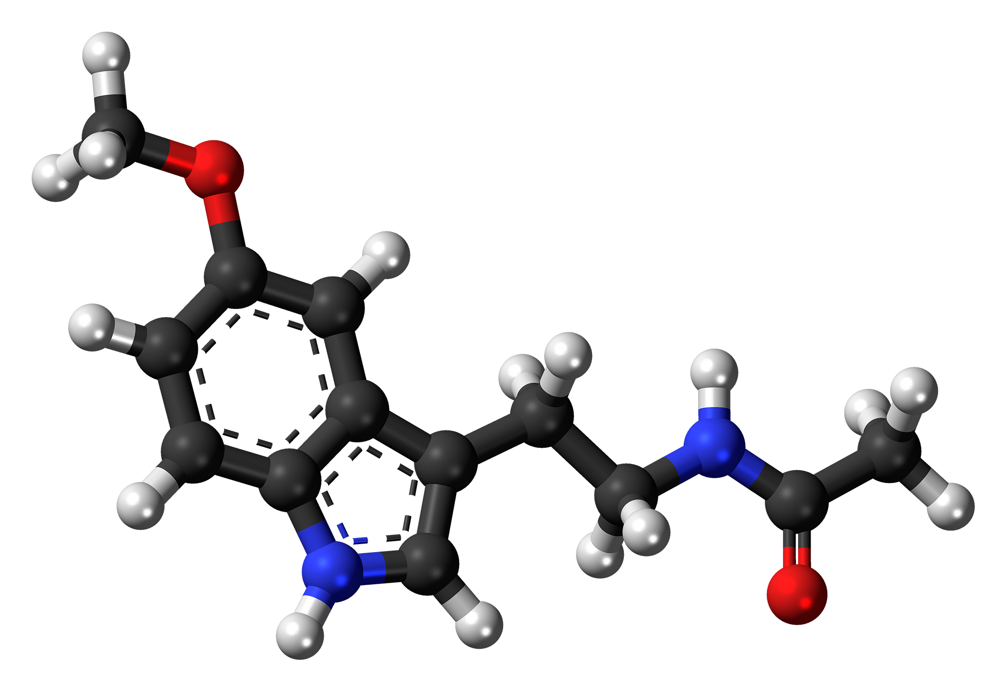 Ball-and-stick model of the melatonin molecule, a hormone that controls the day and night cycle in animals. Color code: Carbon, C: black Hydrogen, H: white Oxygen, O: red Nitrogen, N: blue